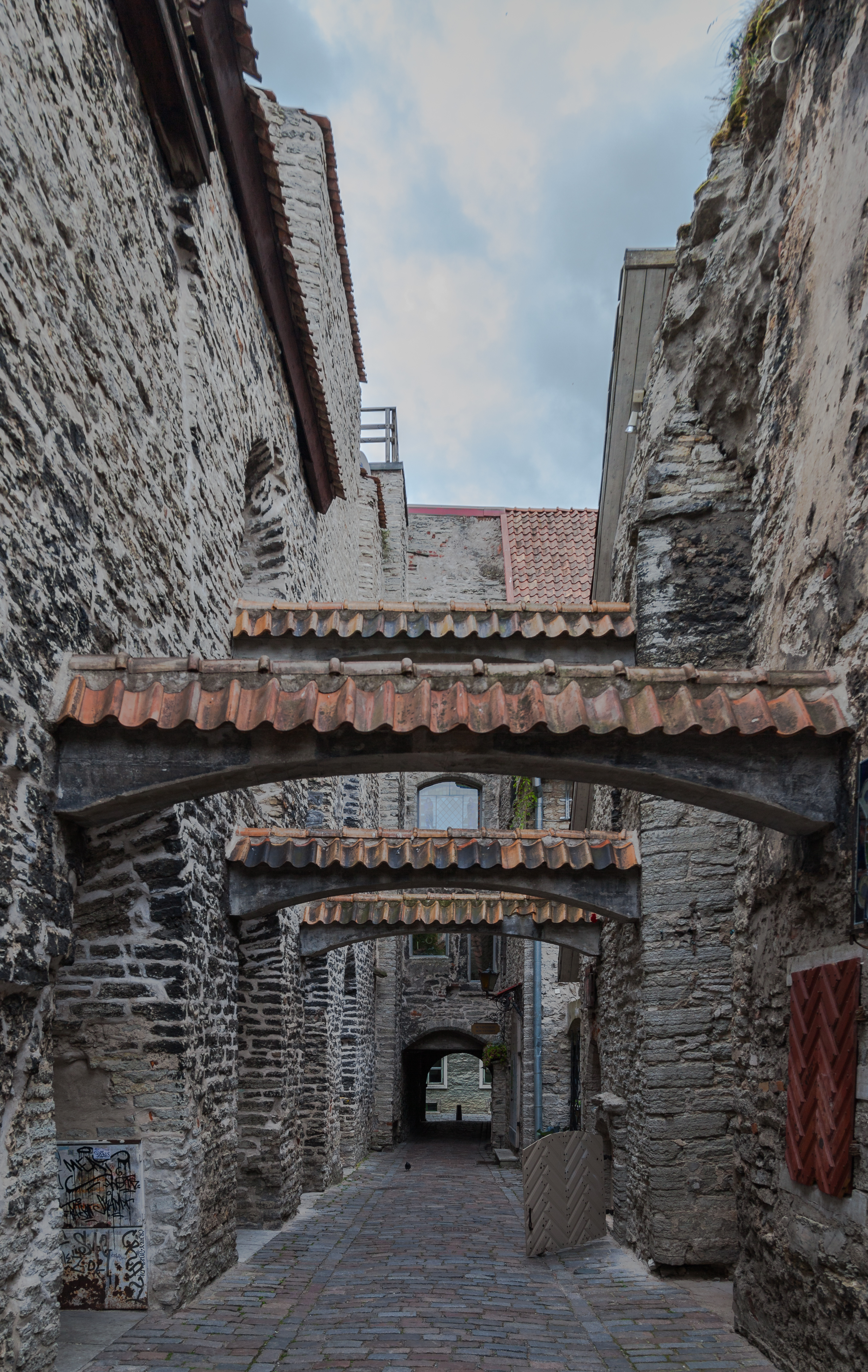 St. Catherine's Passage, Tallinn, Estonia